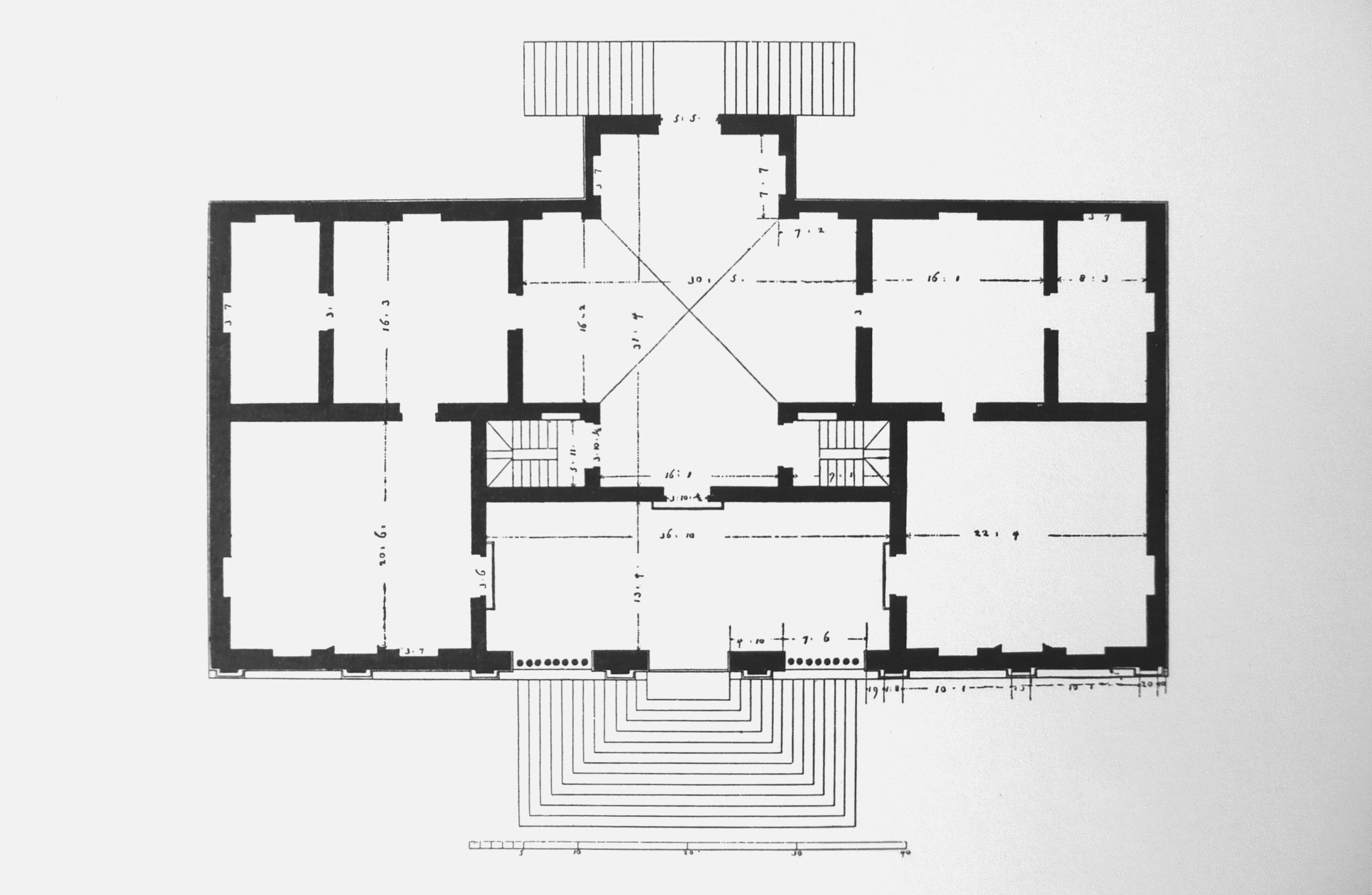 Plan of the villa Gazzotti